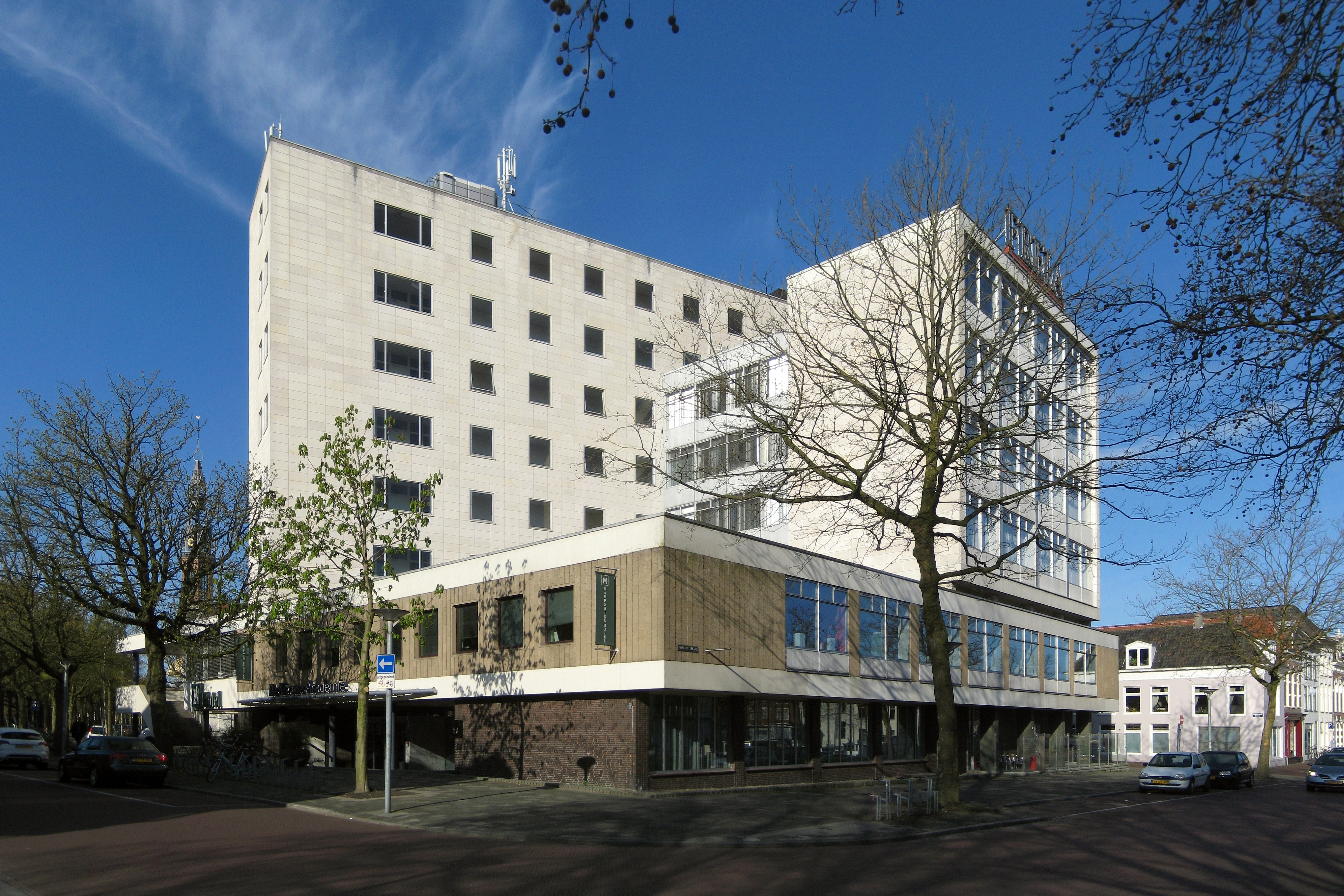 Former office building (1959-1961) in the Dutch city of Groningen.